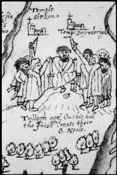 Detail from copy of an Ulsster map by Richard Bartlett of O'Neill inauguration at Tulach Og. The king is seated on a mound during an inauguration ceremony that includes the single shoe ritual. Copy from Dartmouth Collection, National Maritime Museum, Greenwich.